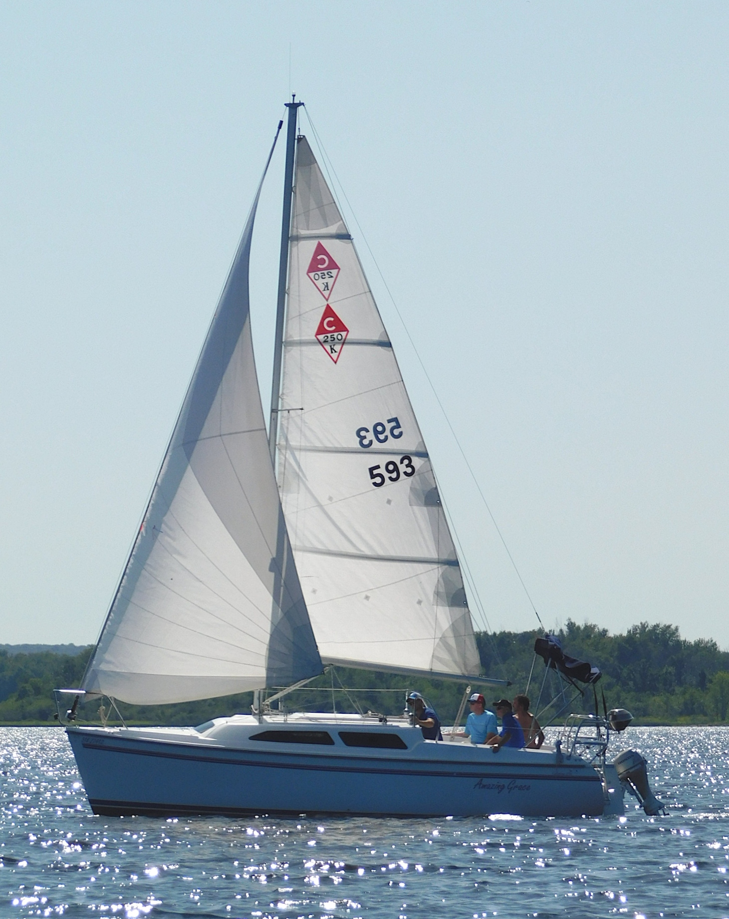 A Catalina 250K sailboat named Amazing Grace.